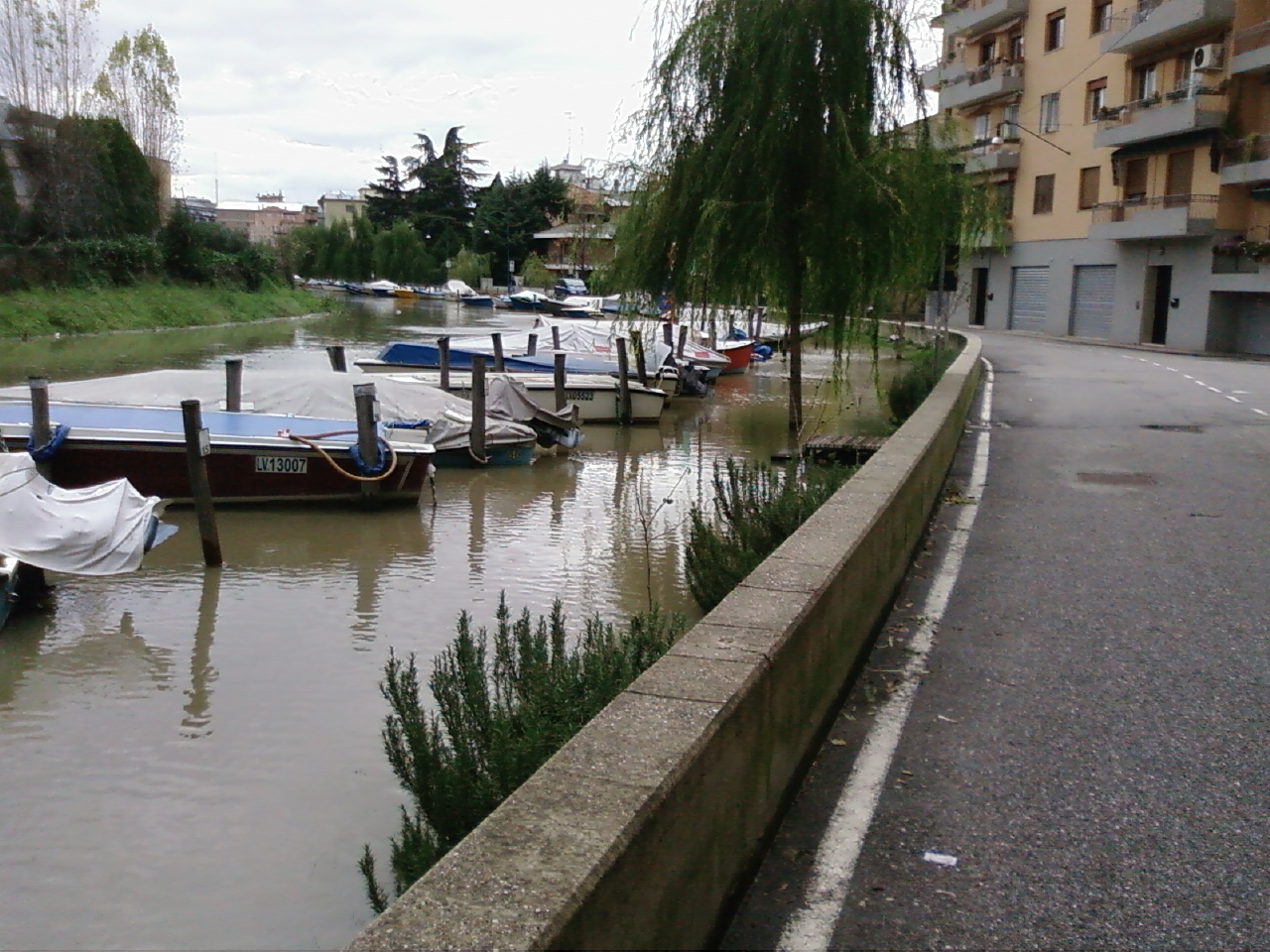 Mestre: canal Osellino under high water